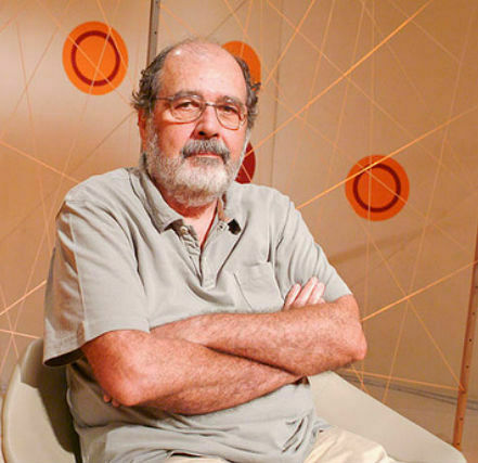 The Brazilian filmmaker Carlos (Cacá) Diegues, during interview at TV Brasil, Brazilian public broadcast.